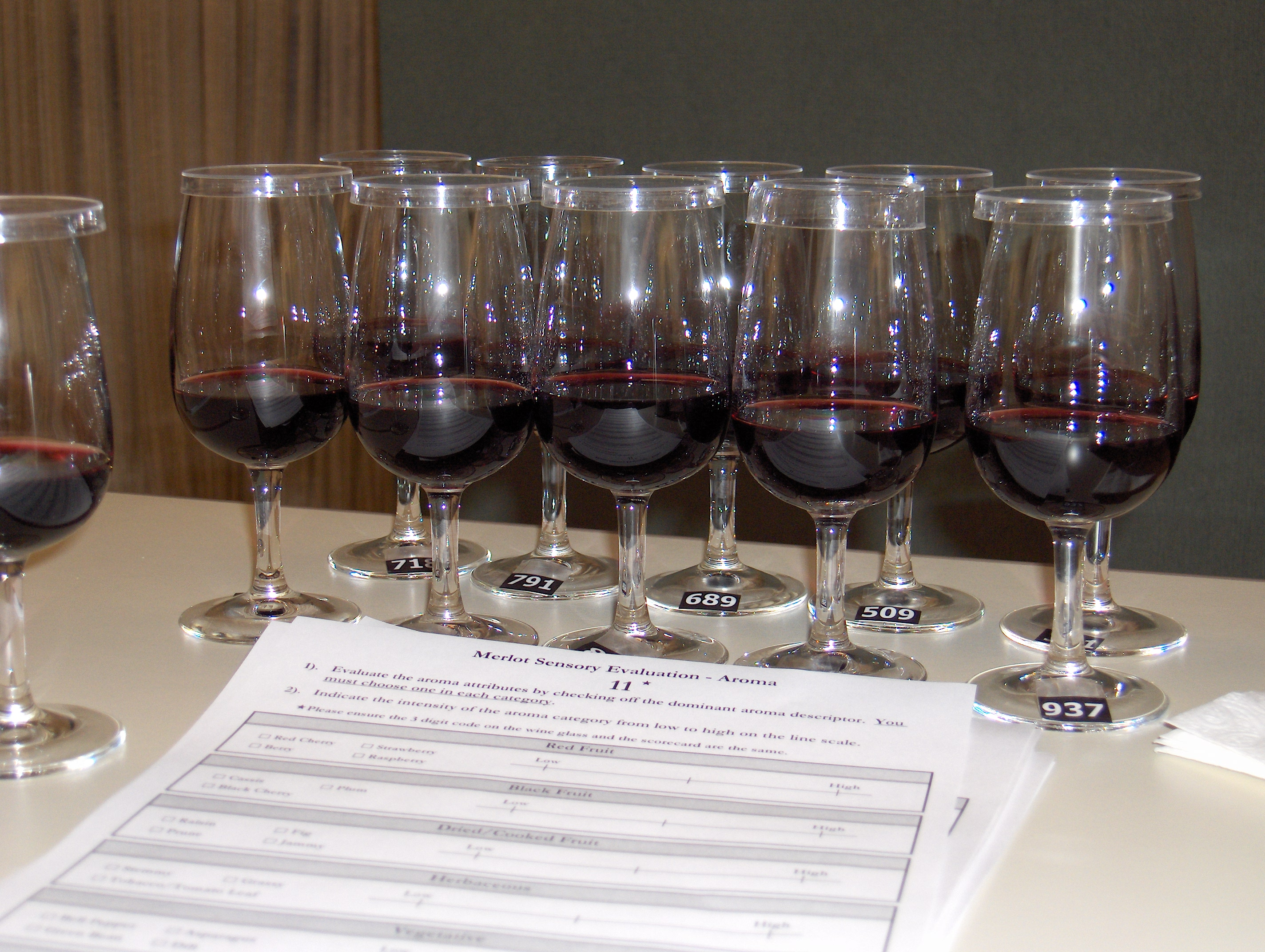 March 2006 tasting panel convened to determine if certain Merlots from the Okanagan could have characteristics attributable to certain geographical areas.